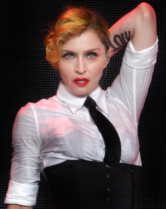 Madonna during her concert in Nice as part of her MDNA Tour on August 21, 2012.